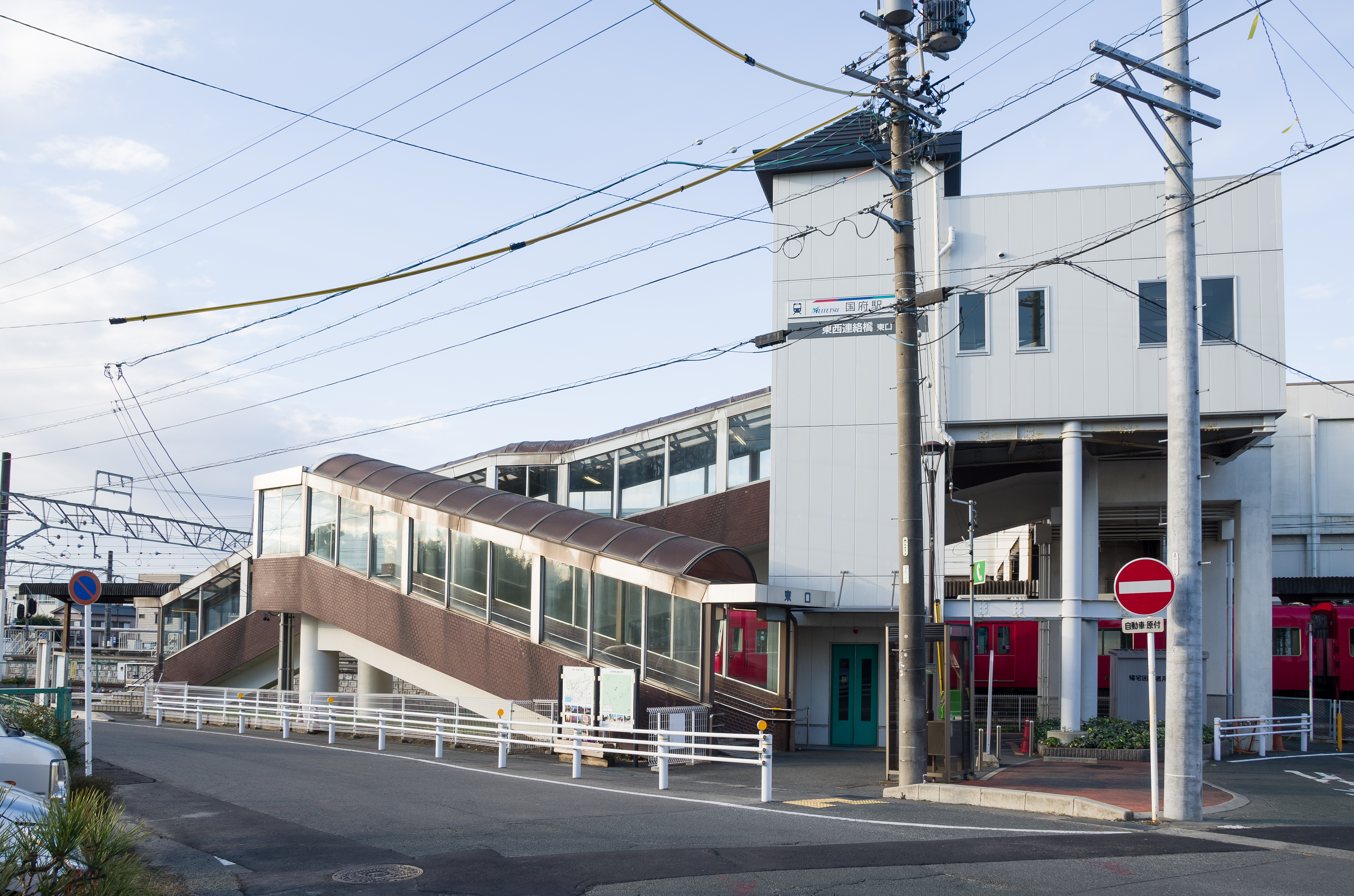 Meitetsu Ko Station East Side (Toyokawa, Aichi, Japan)